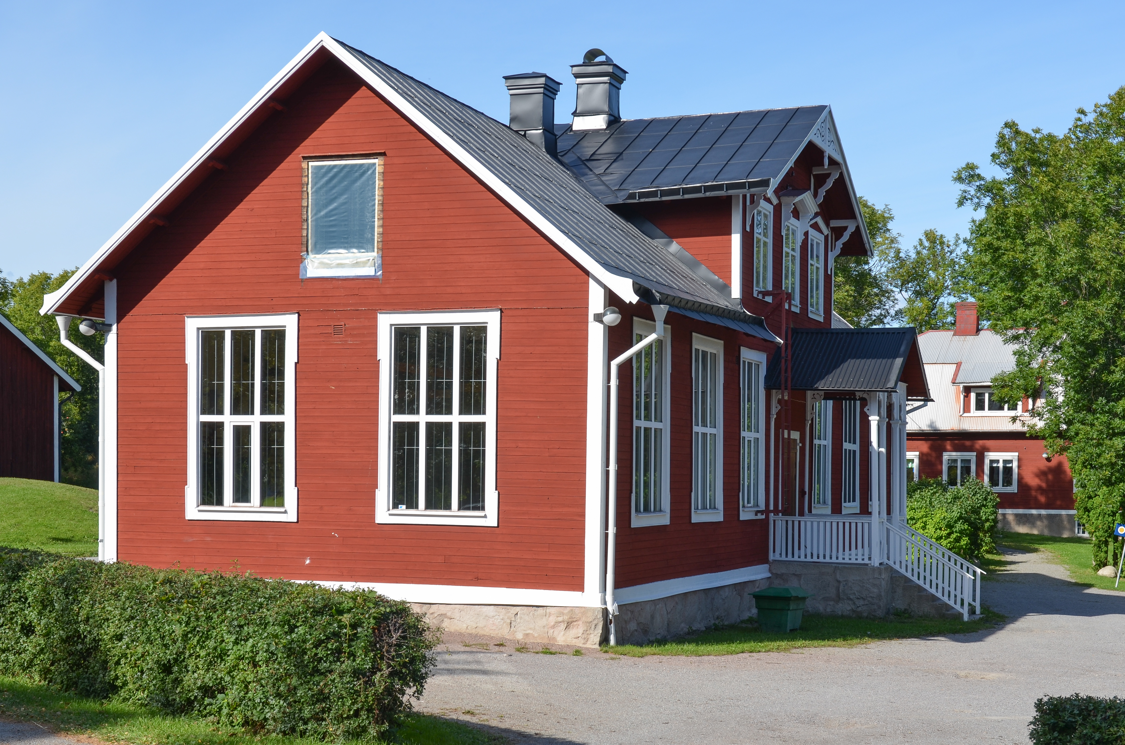 1800s school building at Skå church, Färingsö, Ekerö Municipality.